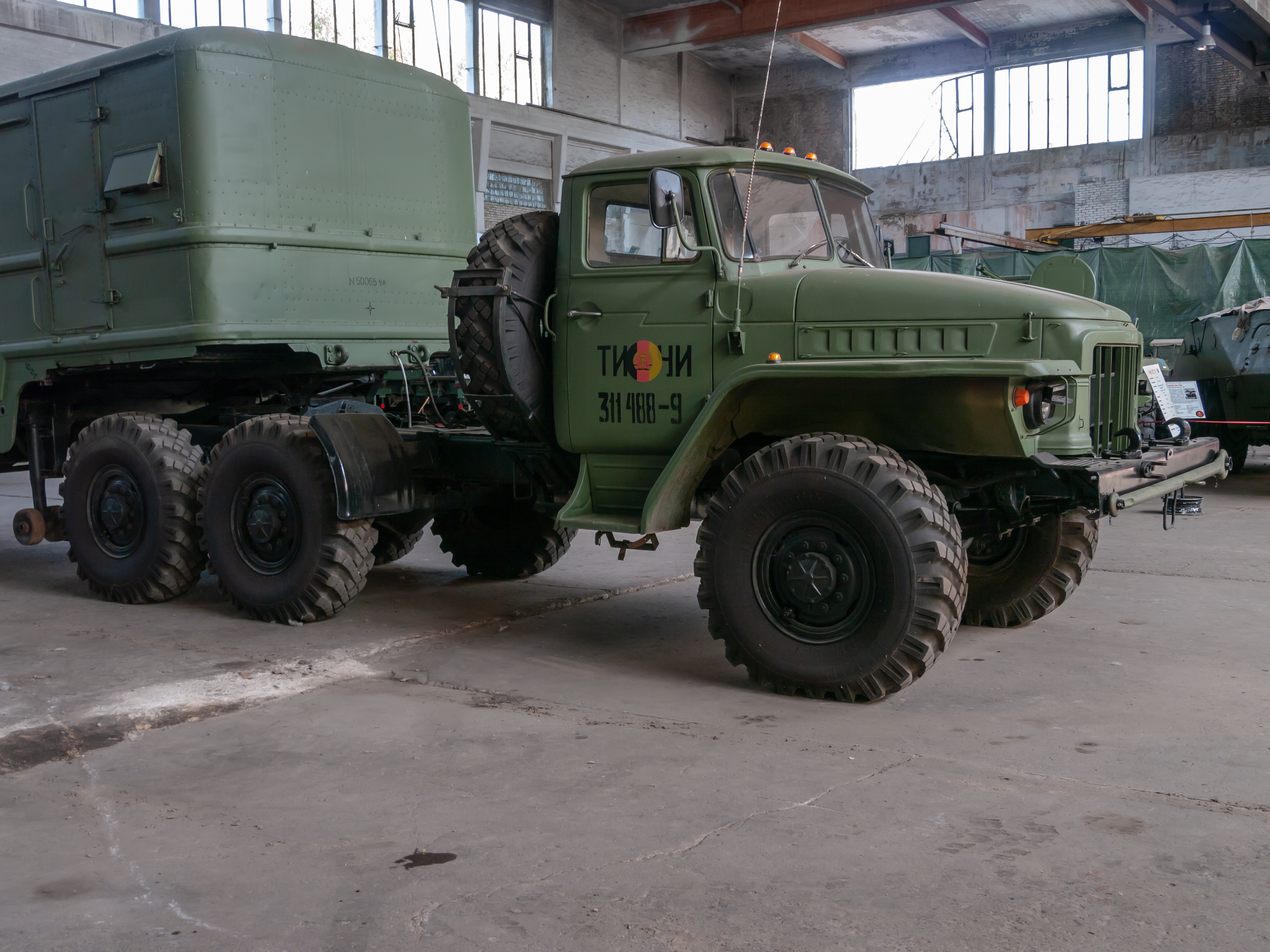 Ural 377 S semi-trailer tractor at Technik-Museum Pütnitz, Ribnitz-Damgarten